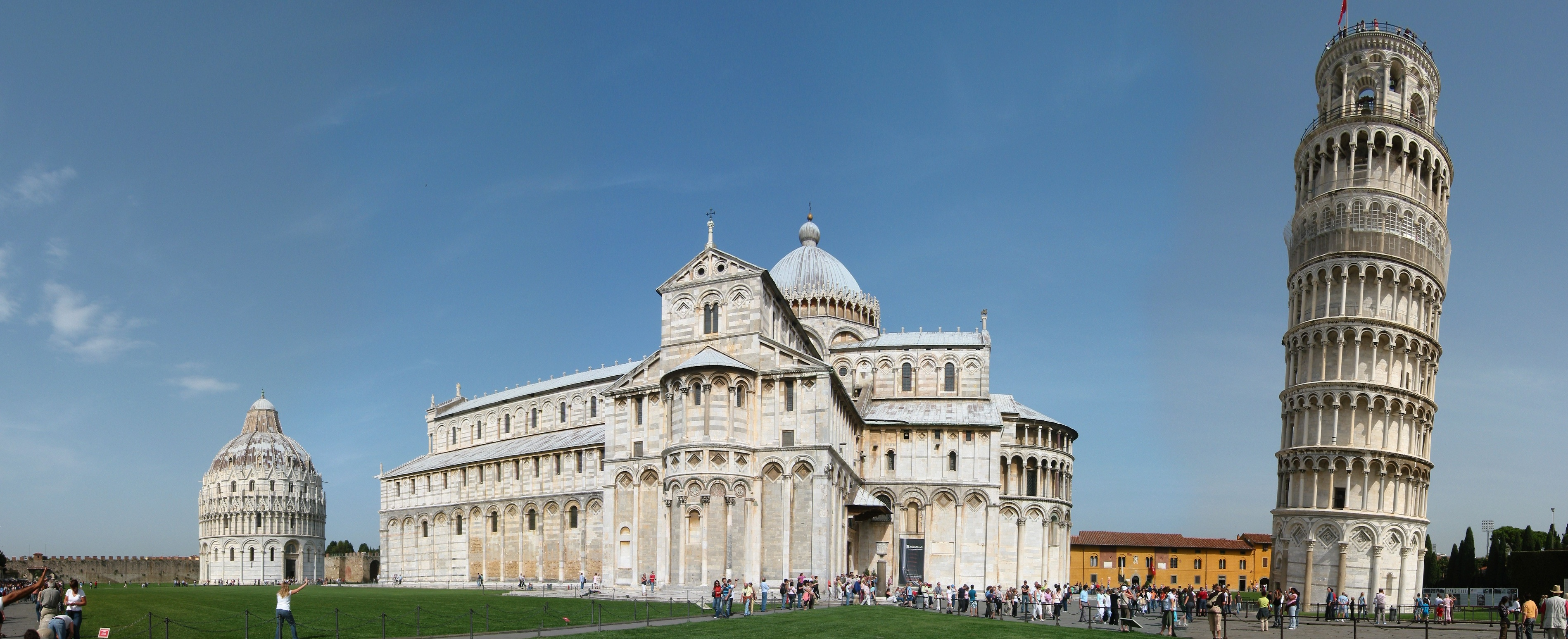 Place of miracle Pisa Italy